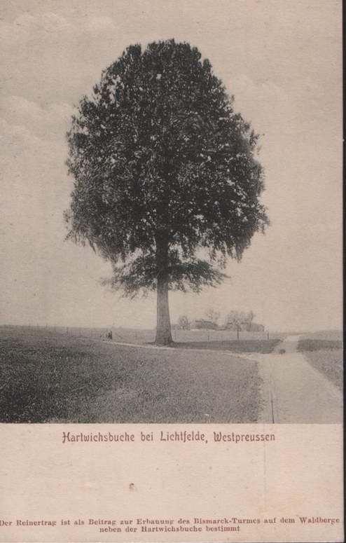 Hartwichs beech in Jasna.